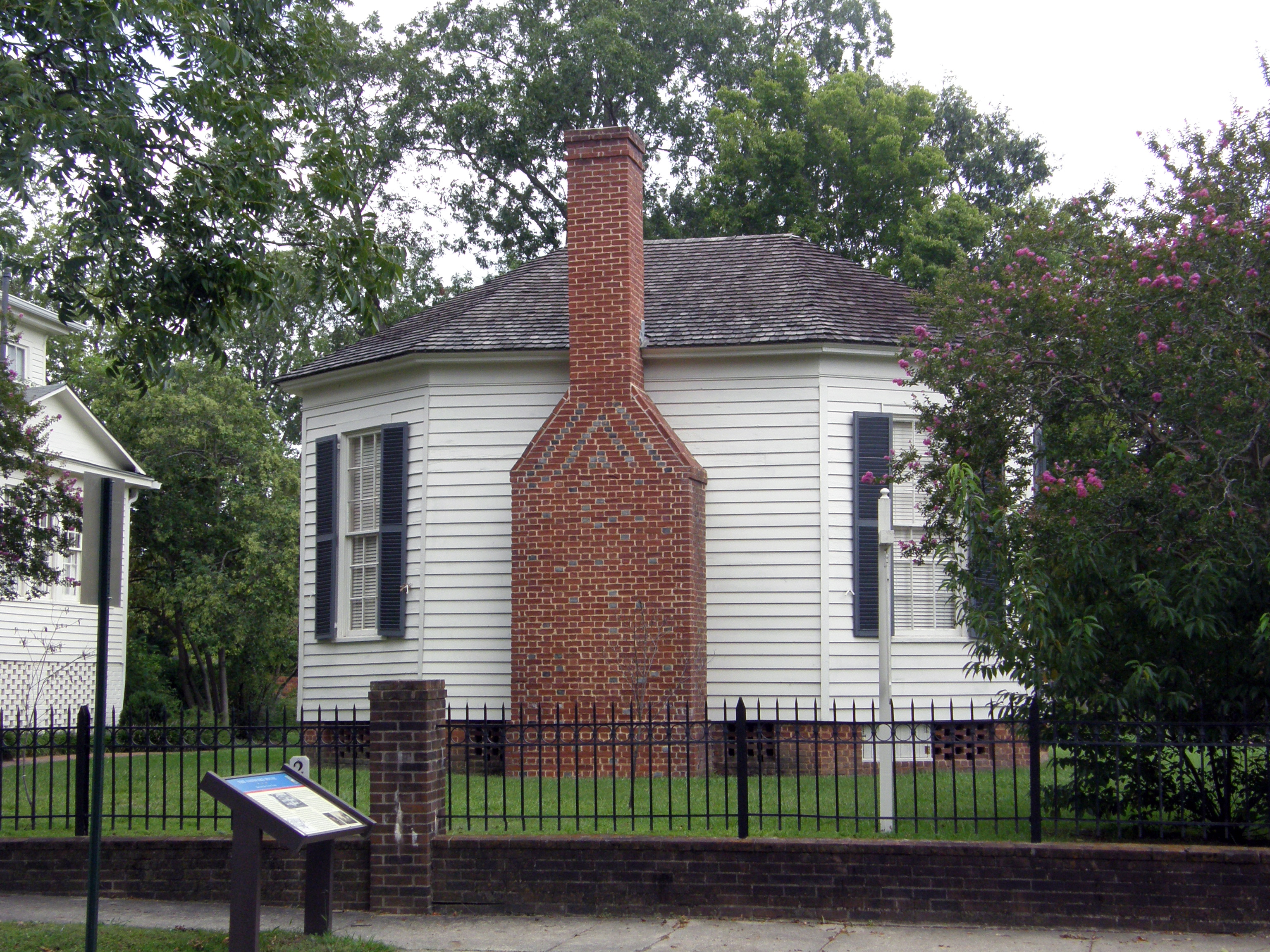 Oval Ballroom's chimney side